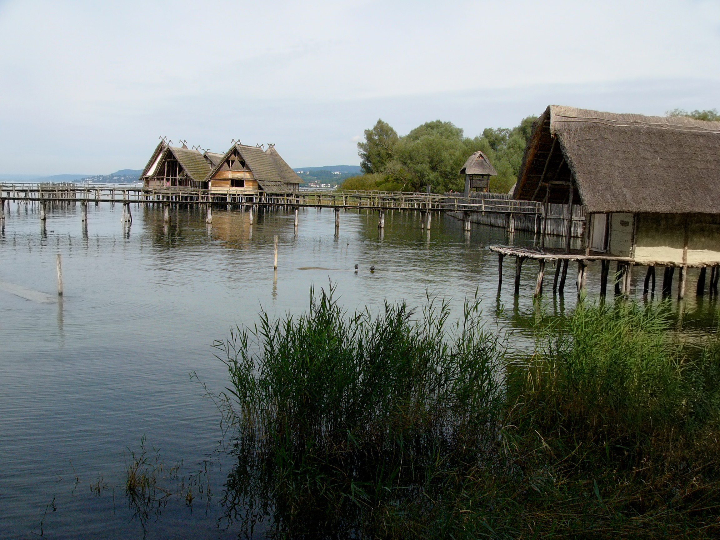 Unteruhldingen, Germany - View to the Stilt Houses